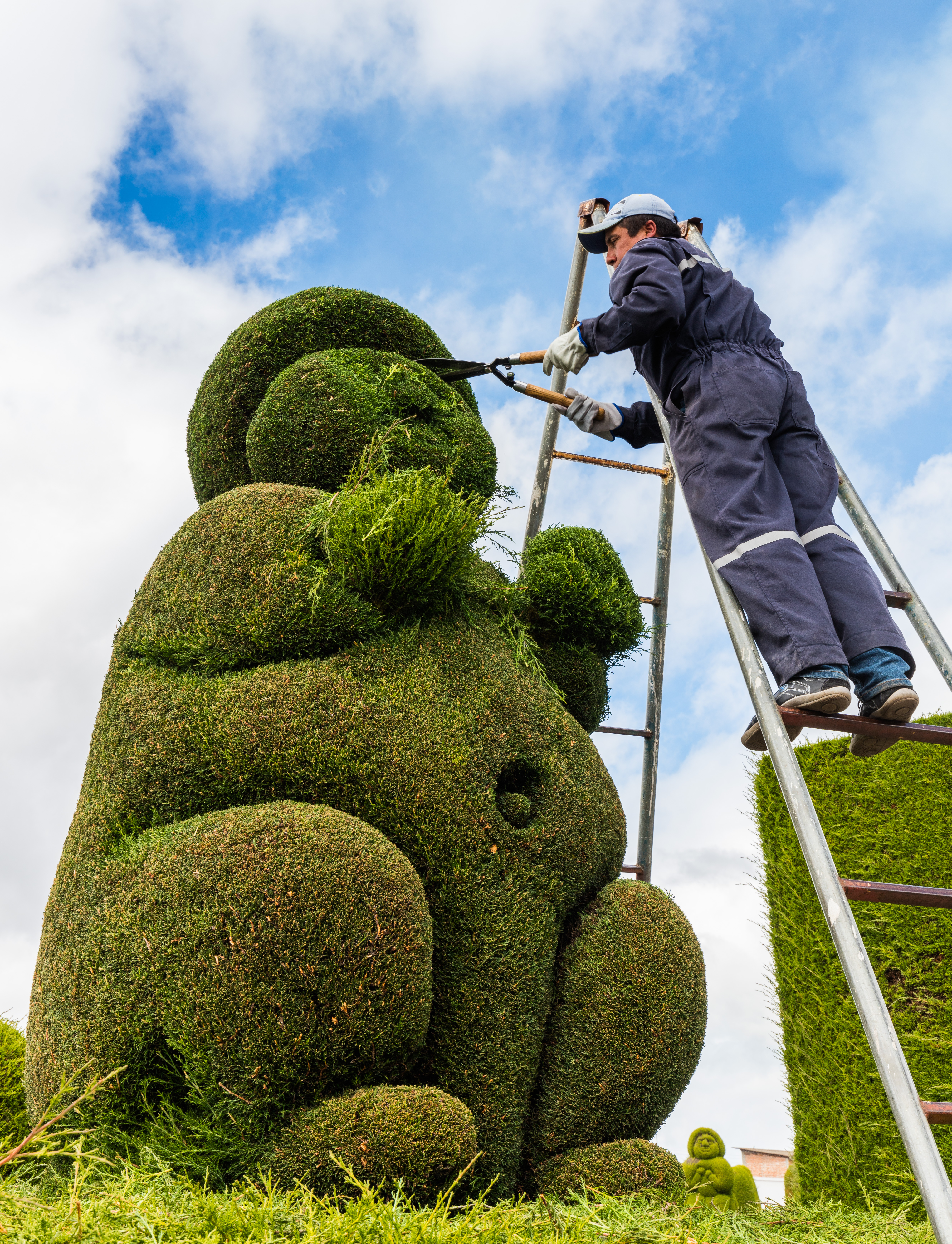 Topiary (practice of clipping the foliage and twigs of trees and shrub to develop and maintain defined shapes) gardener (or artist?) working a cypress in the cemetery of Tulcán, located in the city of Tulcán, capital of the Carchi Province, north of Ecuador. The cemetery, of a surface of 8 hectares (20 acres), was founded in 1932 to replace the former one that was damaged in the 1923 earthquake. José María Azael Franco Guerrero was back in 1936 in charge of the city parks and started topiary works in the Tulcán cemetery. In the meanwhile the cemetery park has become internationally popular in the art of topiary and was renamed in 2007 to cemetery Azael Franco to honour his work.